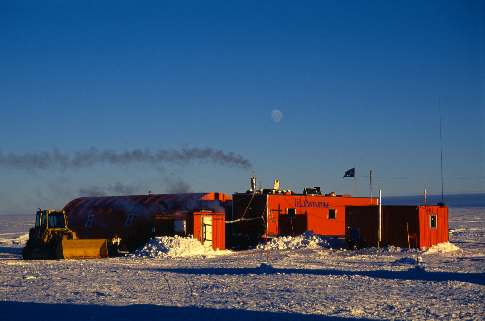 Dome C summer camp in 1996, high antarctic plateau